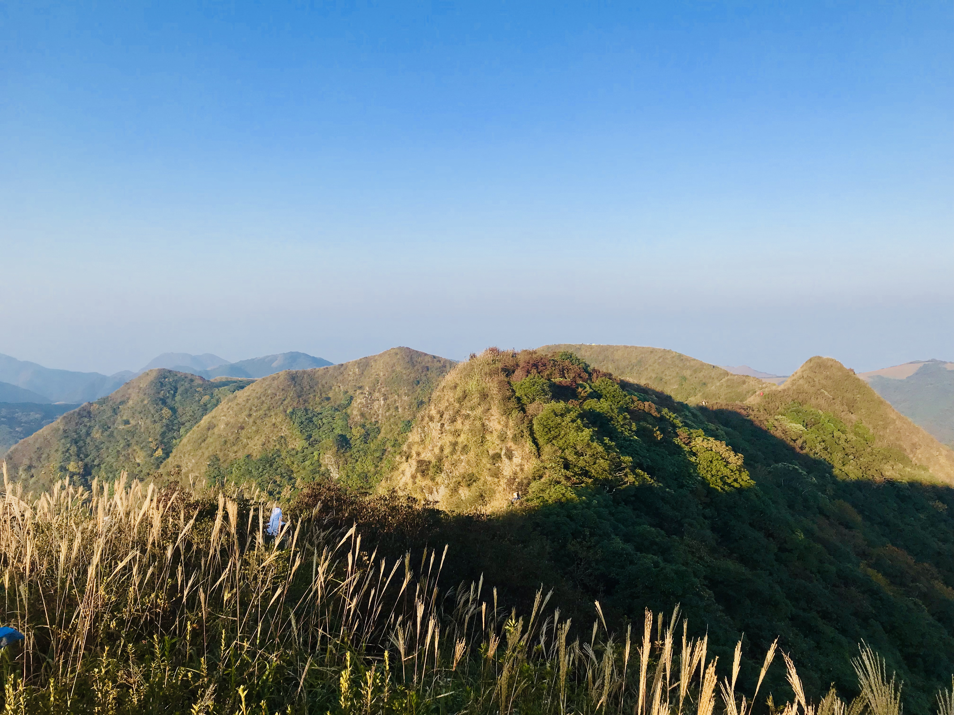 Jiucailing is a 2,009.3 metres (6,592 ft) mountain in Dao County, Hunan, China.